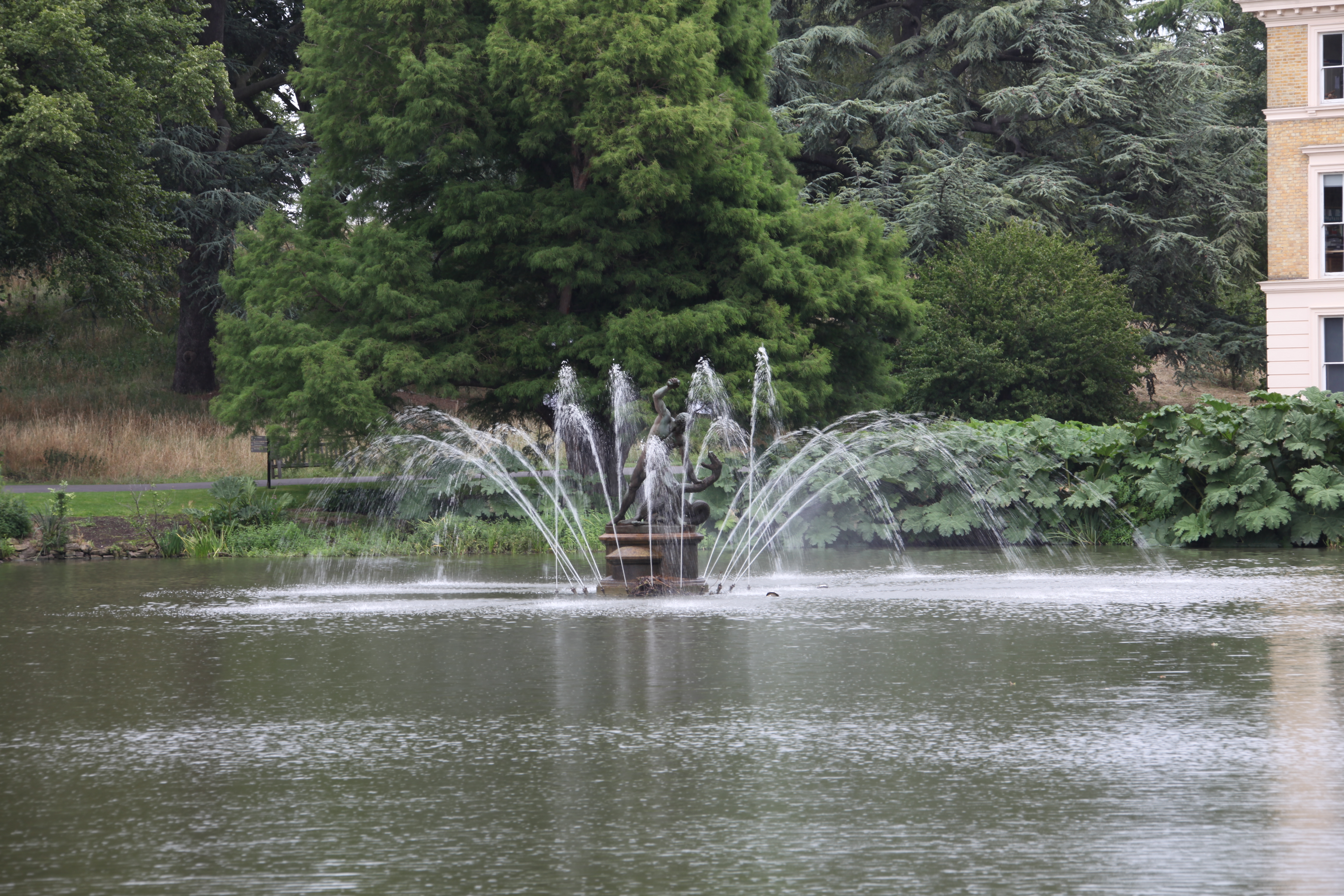 Fountain at Kew Gardens, England, with a 1/30s exposure time